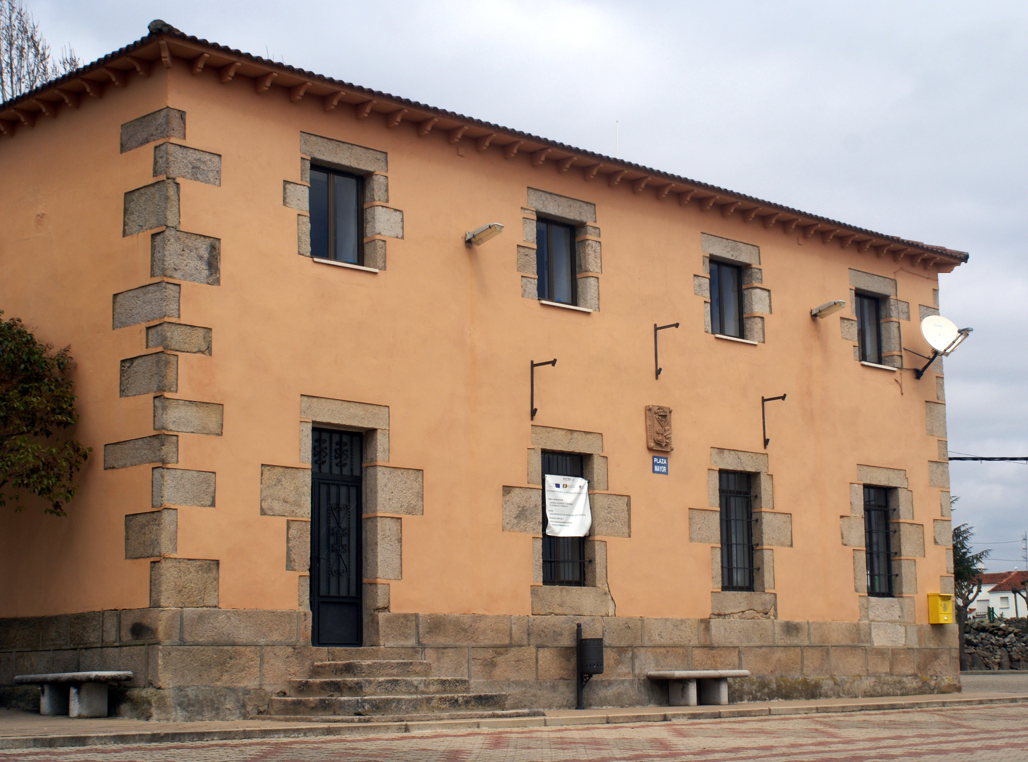 Town hall in Encina de San Silvestre, Salamanca, Spain.